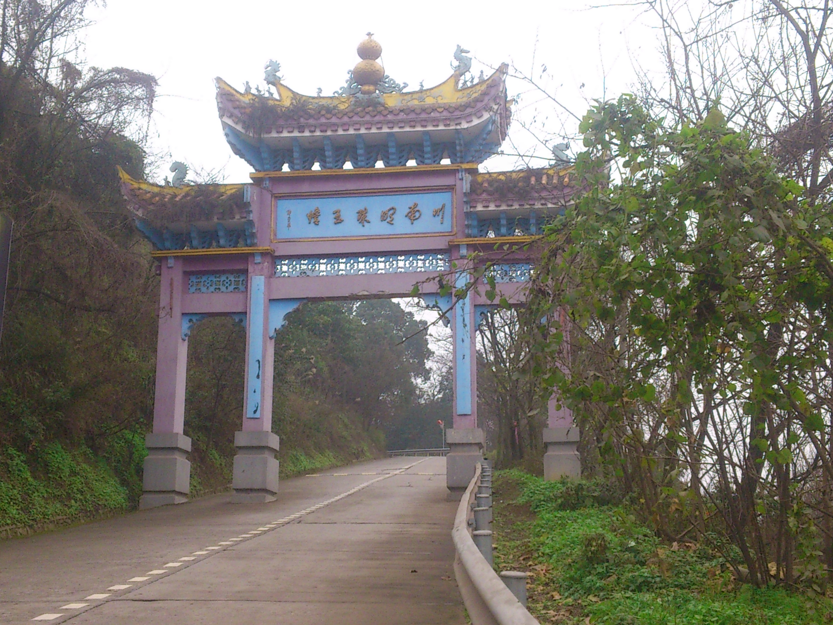 Entry of the winding mountain road to Jade toad mountain.JPG